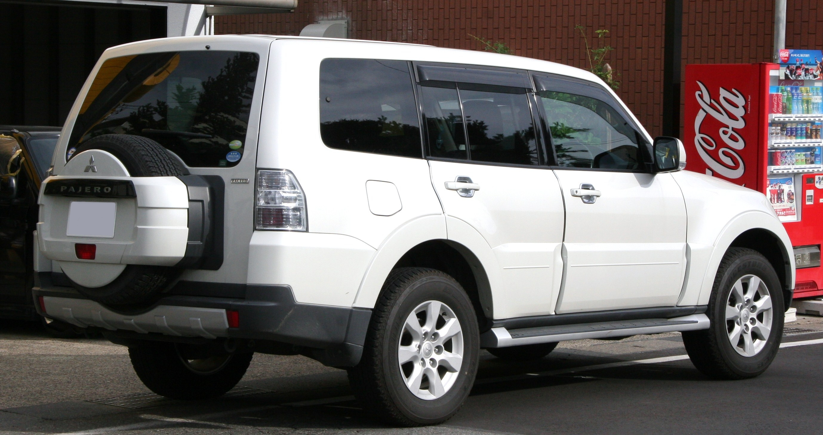 Mitsubishi Pajero